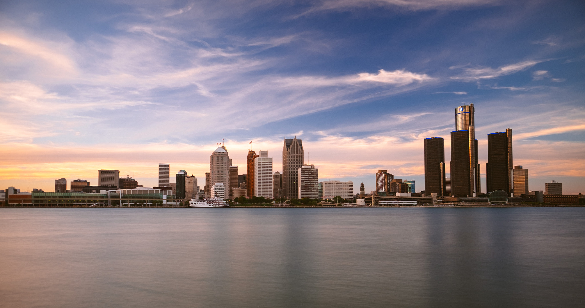 500px provided description: Detroit skyline, as viewed from Windsor, Canada [#ontario ,#canada ,#sky ,#city ,#sunset ,#river ,#blue ,#sun ,#clouds ,#architecture ,#cityscape ,#skyline ,#long exposure ,#michigan ,#windsor ,#detroit ,#detroit river ,#500pxGPW15]